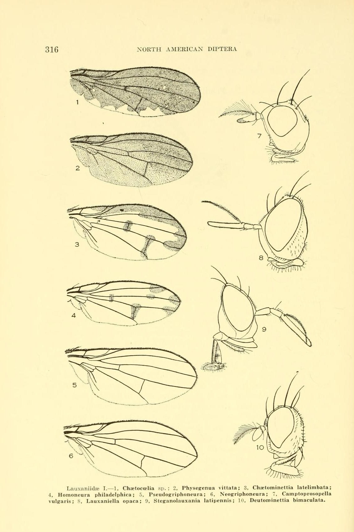 Charles Howard Curran , 1934 The families and genera of North American Diptera C.H. Curran in [New York] . Lauxaniidae Illustration from S.W. Williston Manual of North American Diptera (1888, 1896, 1908)